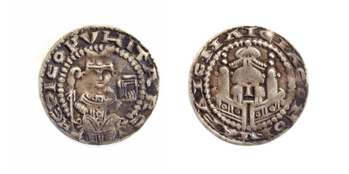 German States, Köln (Cologne), silver penny or denar, struck ca. 1175-1181 under Archbishop Philipp von Heinsberg (1167-1191). Obverse: Enthroned Archbishop with mitre, holding crosier and book. Legend: HITARCH EPICOPV. Reverse: Three towers over wall with gate. Legend: COLONIA PAICHIAIAIG.